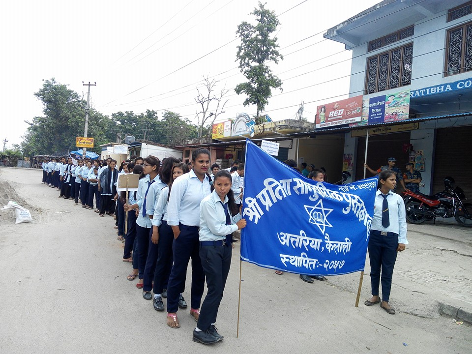 मोती जयन्तीमा प्रभातफेरी निकालीदै